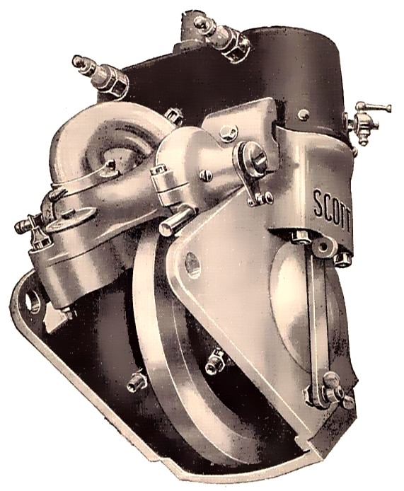 Fig. 198 Scott two-cylinder two-stroke motorcycle engine Scans from 'The Book of the Motor Car', Rankin Kennedy C.E., 1912 See other images from this source in Scans from 'The Book of the Motor Car'